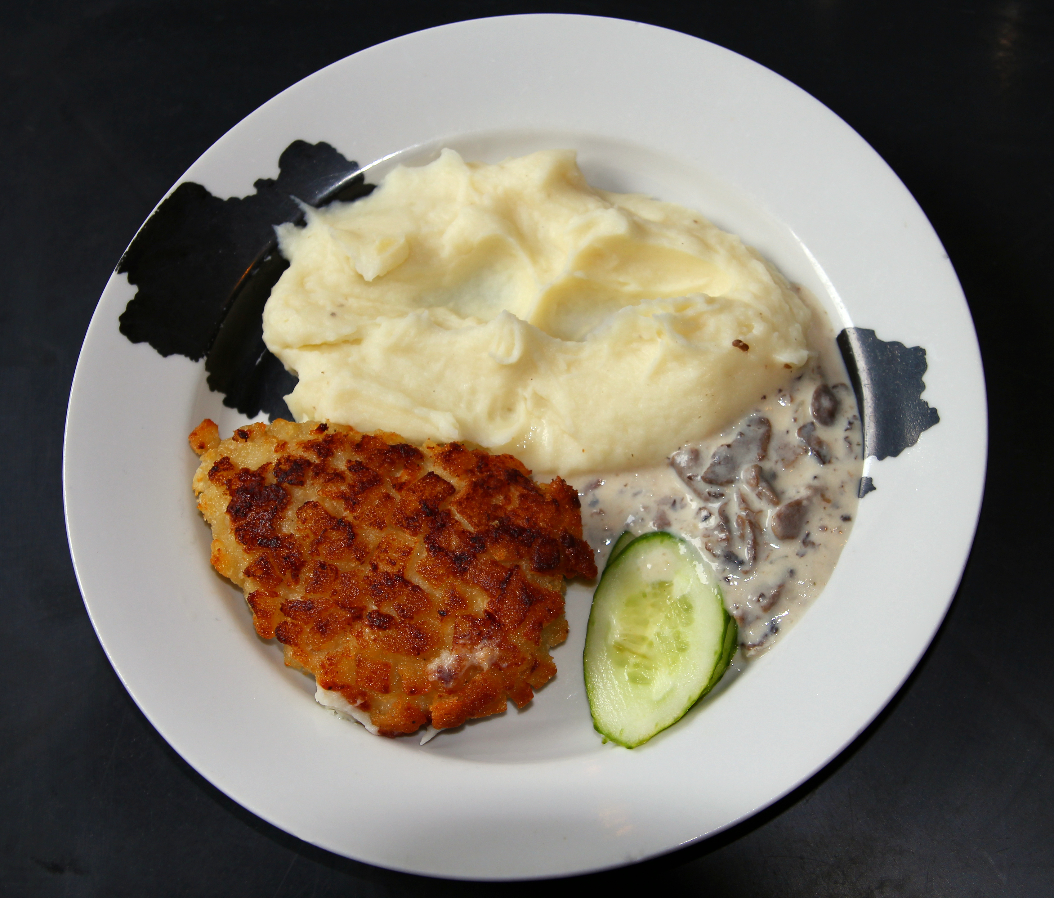 A traditional Russian chicken dish named «Pozharskaya kotleta» with mashed potatoes and a mushroom sauce